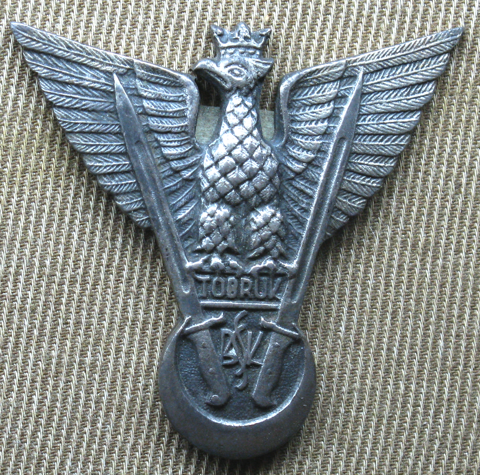 Memorial badge of the Polish Independent Carpathian Rifle Brigade